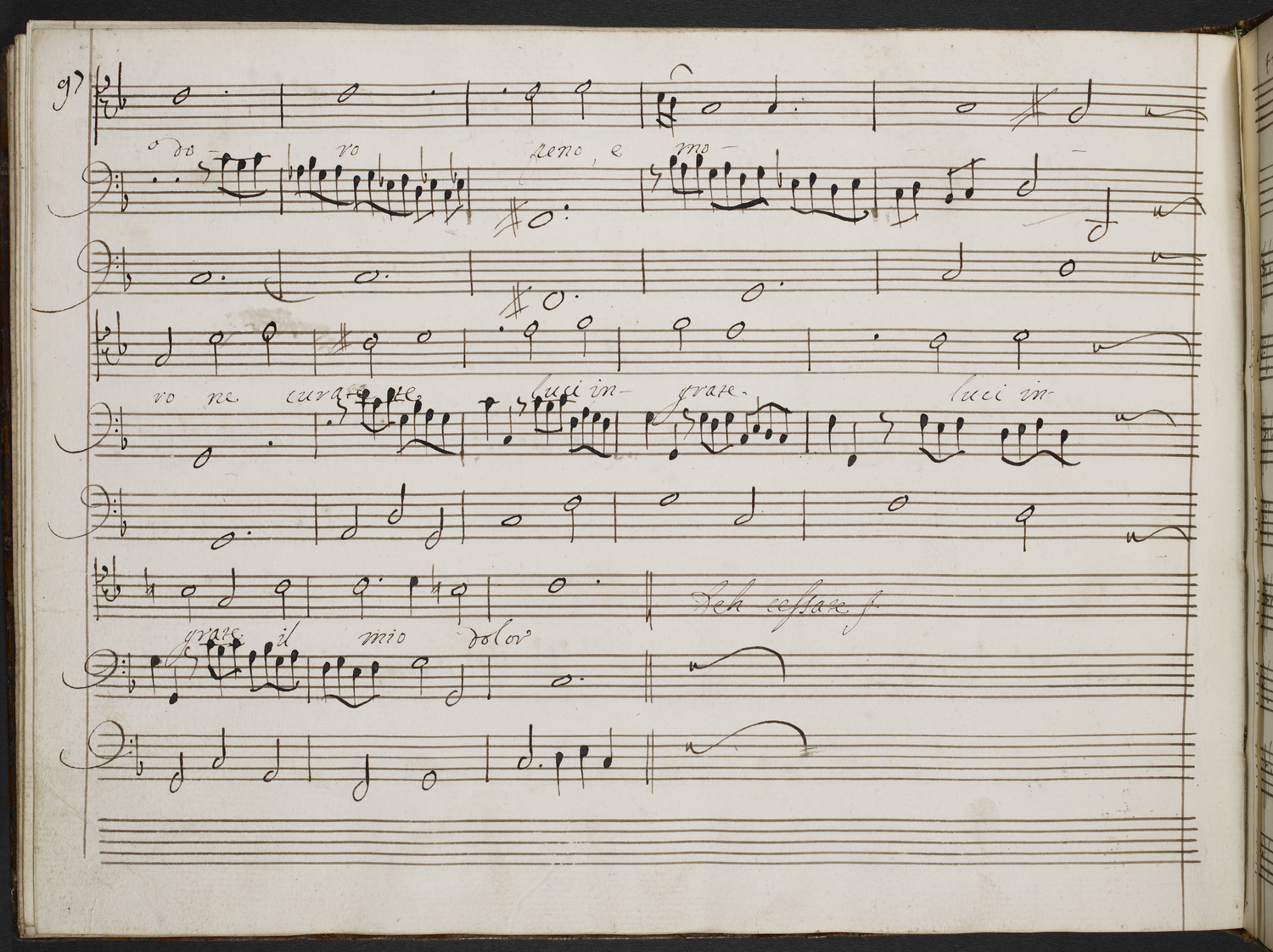 Henrico Leone. In the composer's hand.